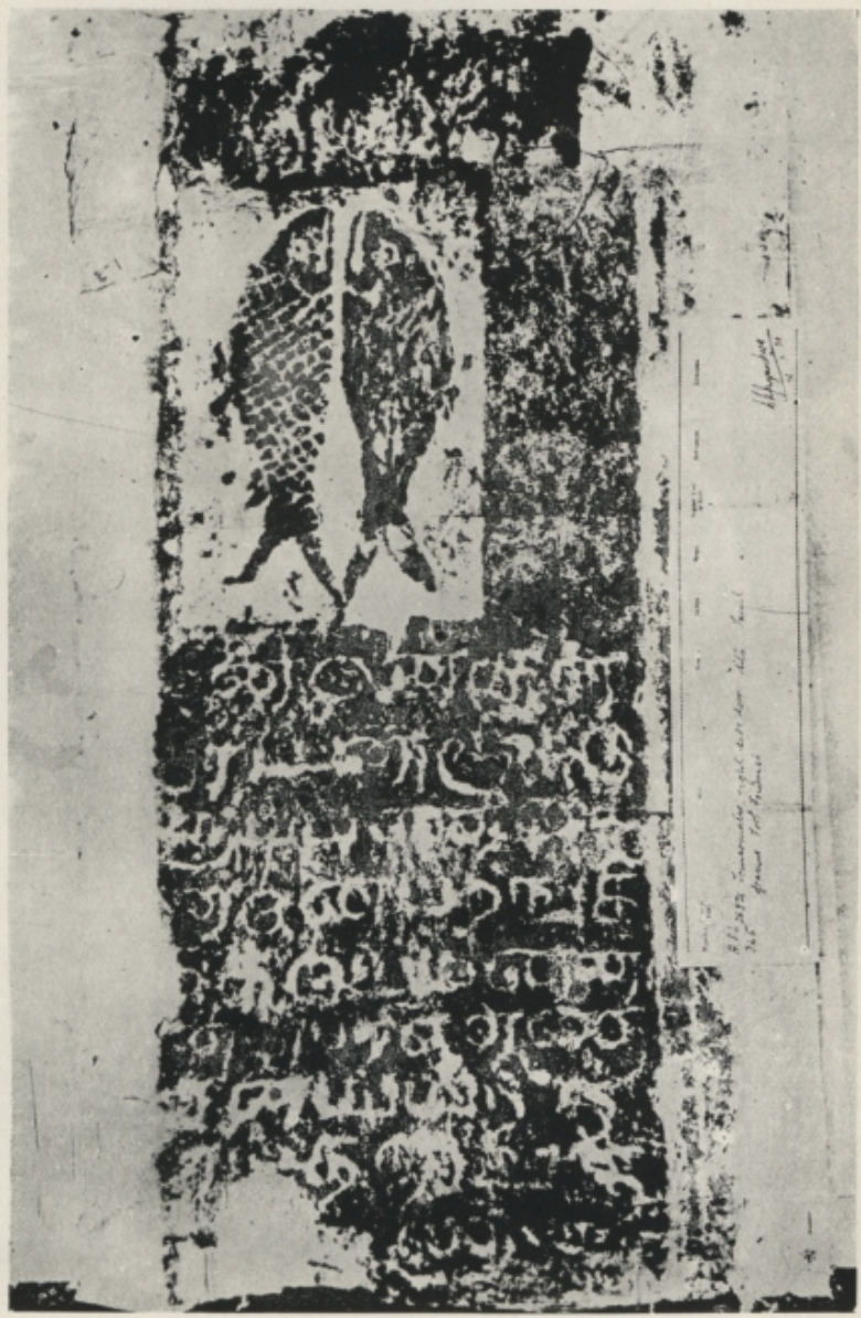 Fort Frederick Koneswaram inscription